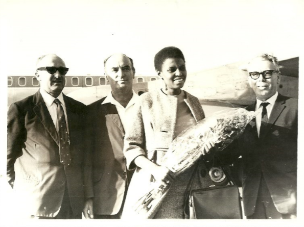 "Airport reception for the singer Miriam Makeba (Jacob Ori at left), 1963."